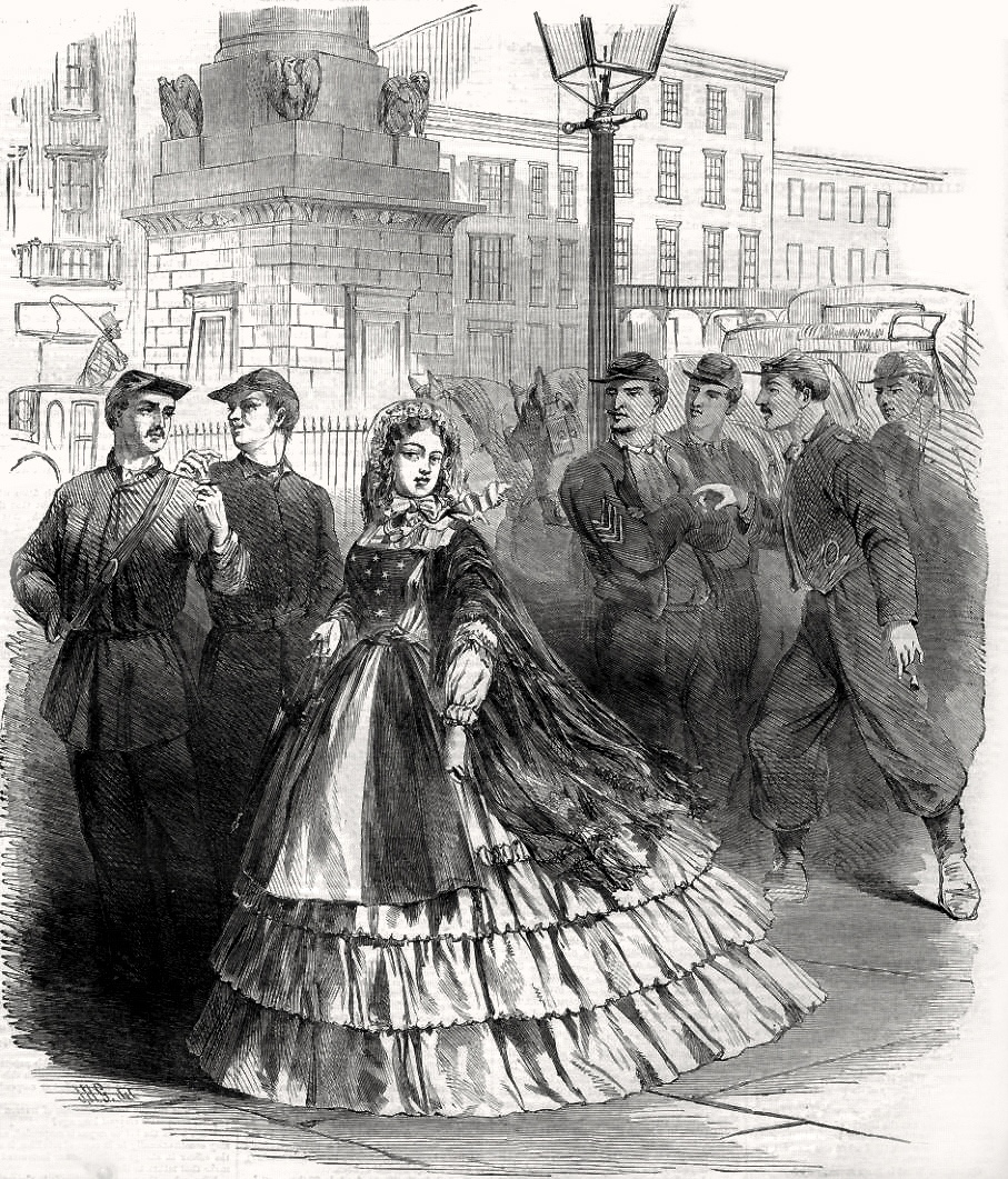 Cover Illustration taken from the cover of Harper's Weekly, September 7, 1861 showing a stereotypical "Southern belle" in Baltimore